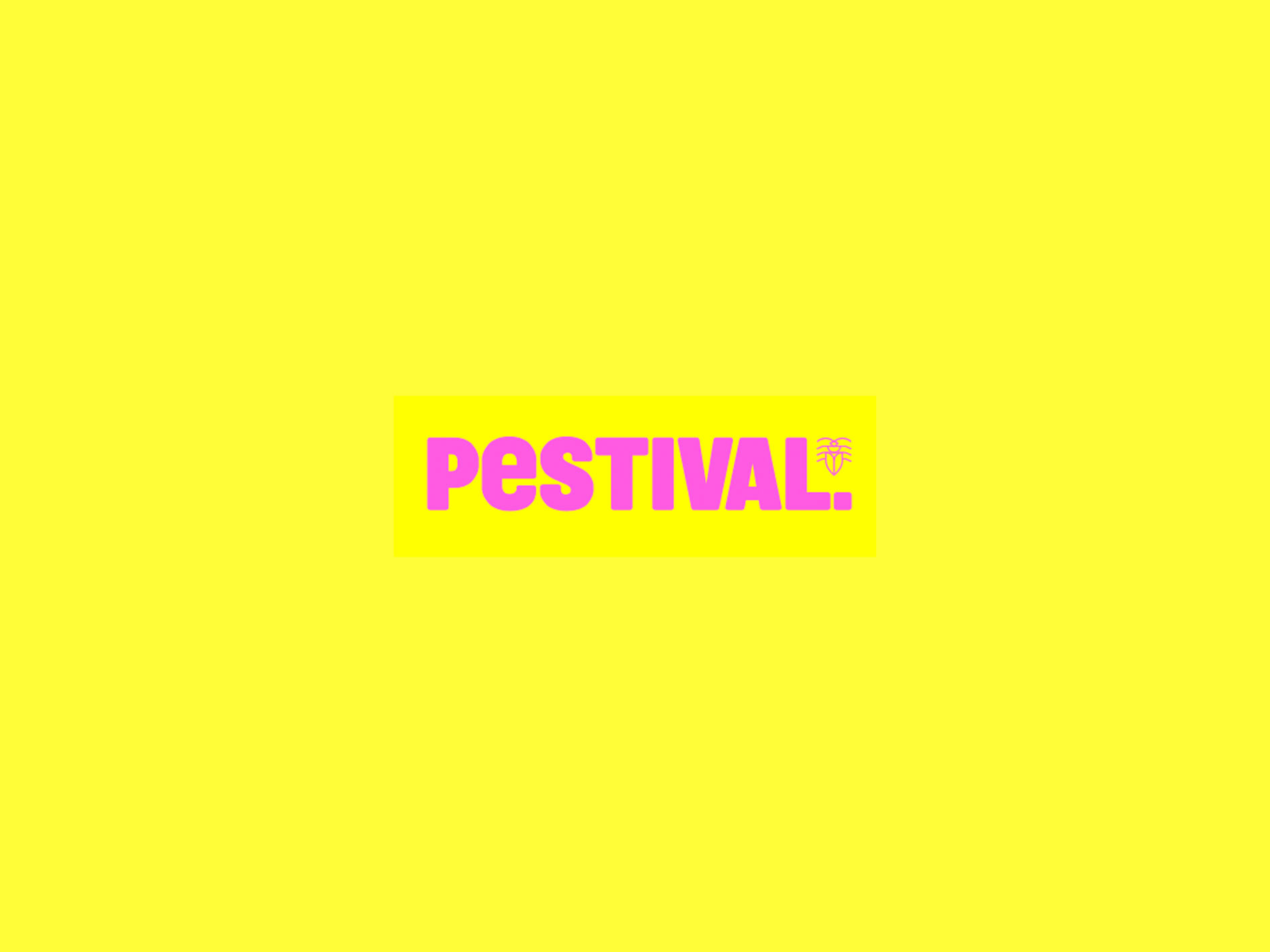 Pestival, logo, original design, wordmark, insect, symbol